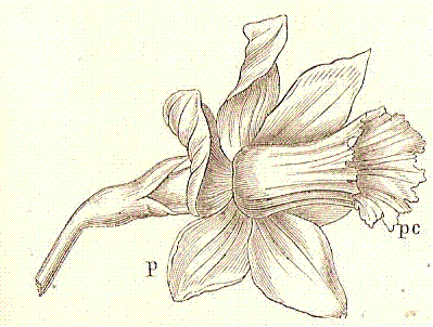 Narcissus flower showing pc: paracorolla and p: perianth, Botanischer Unterricht H Hager Julius Springer 1885